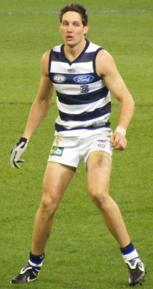 Harry Taylor playing for Geelong against Hawthorn